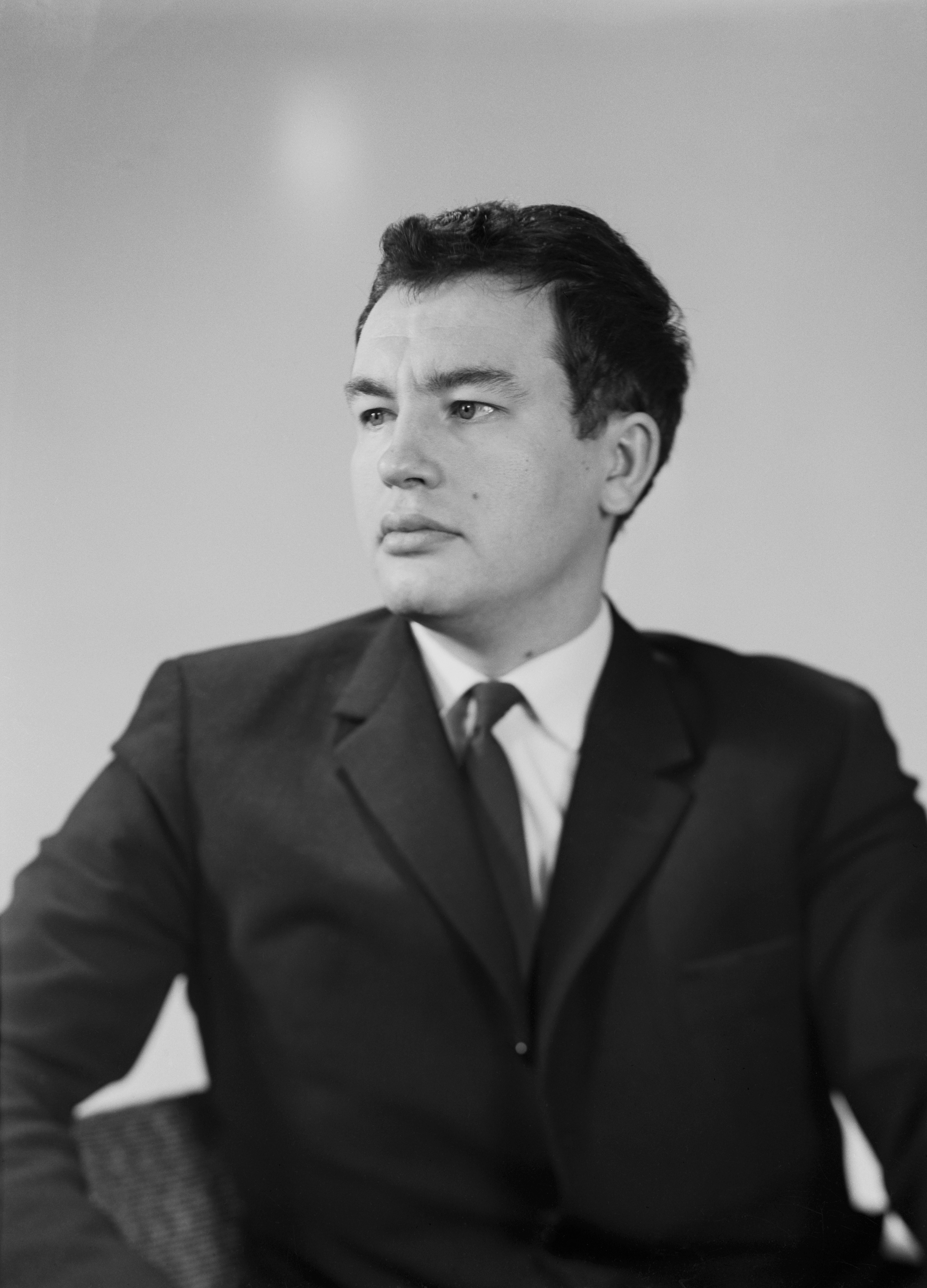 Photograph of the Finnish writer and politician Arvo Salo (1932–2011).